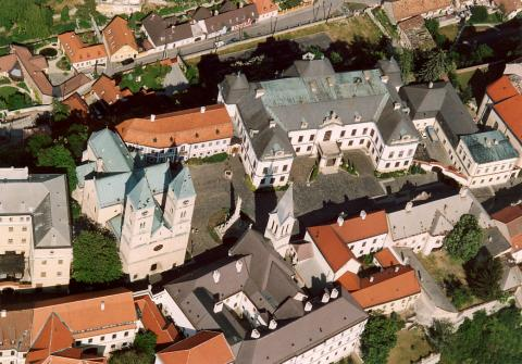 Veszprém, Cathedral, Hungary, aerialphotography